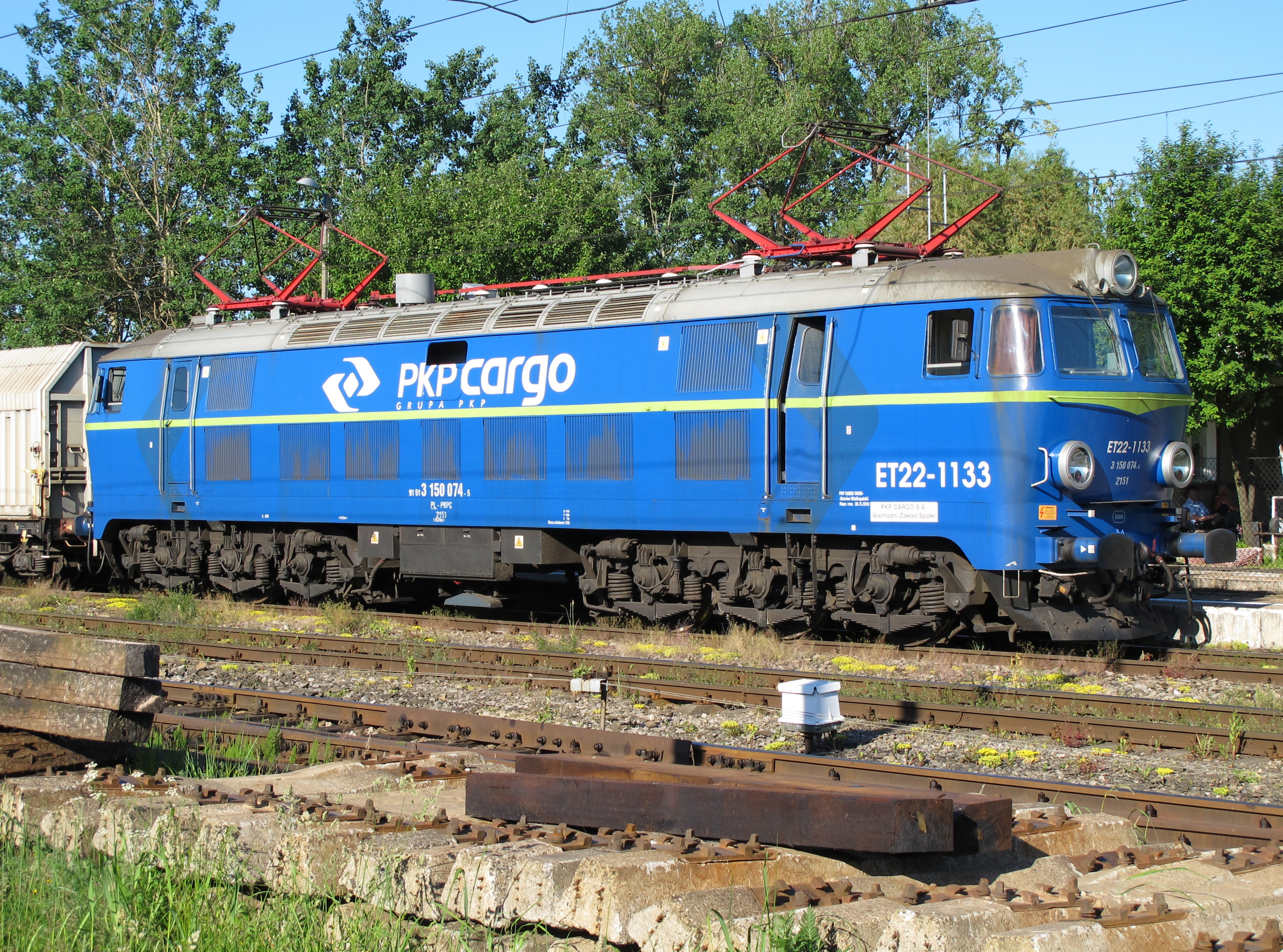 Electric freight locomotive ET22-1133 at Wasilków train station, podlaskie, Poland